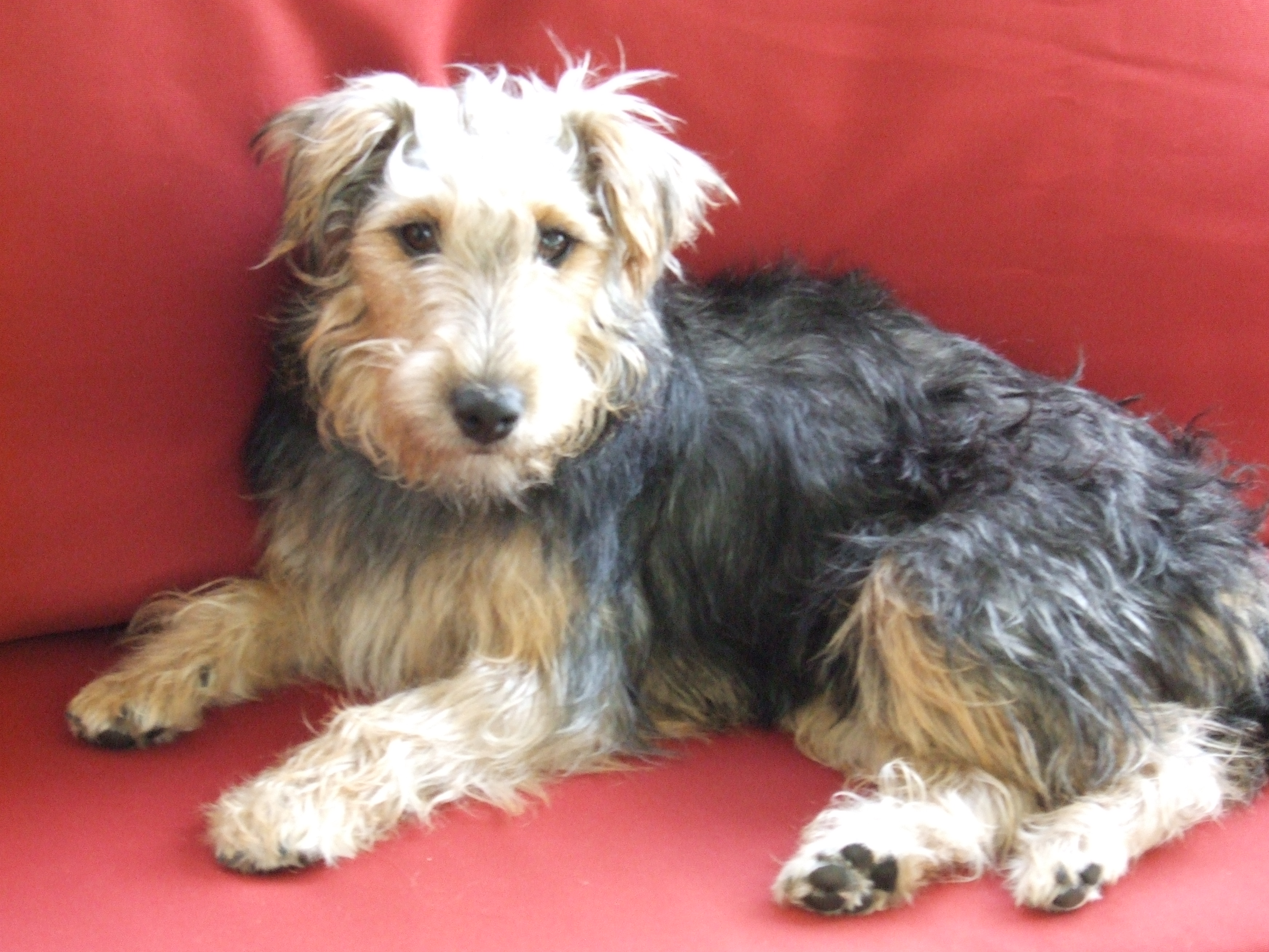 German Jagdterrier